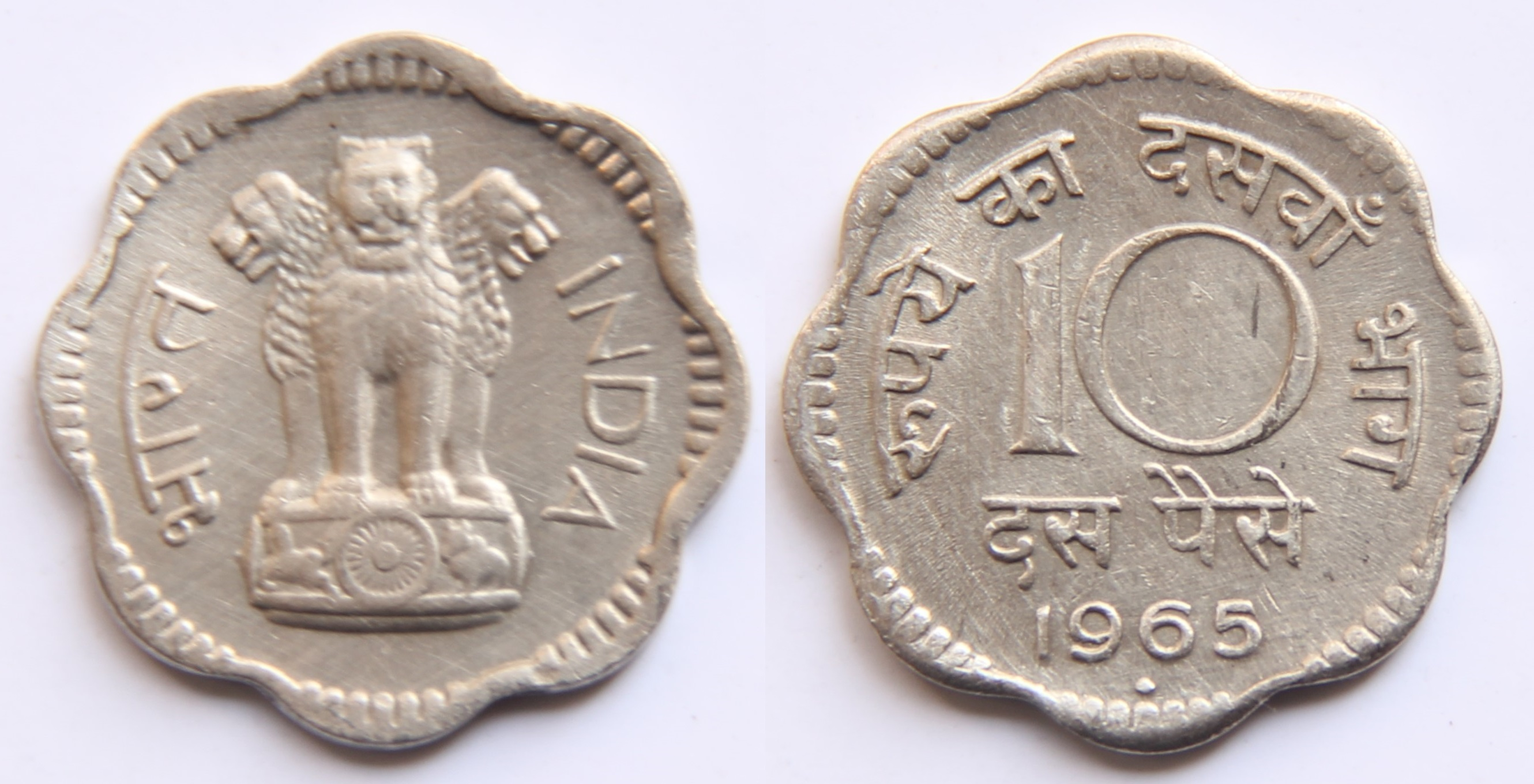 Face value: 10 Indian paise. Country: India. Year of minting: 1965. Metal: Copper-nickel. Shape: Scalloped. Obverse: State Emblem of India and country name. Reverse: Face-value and year. Lettering on top: रुपये का दसवाँ भाग (